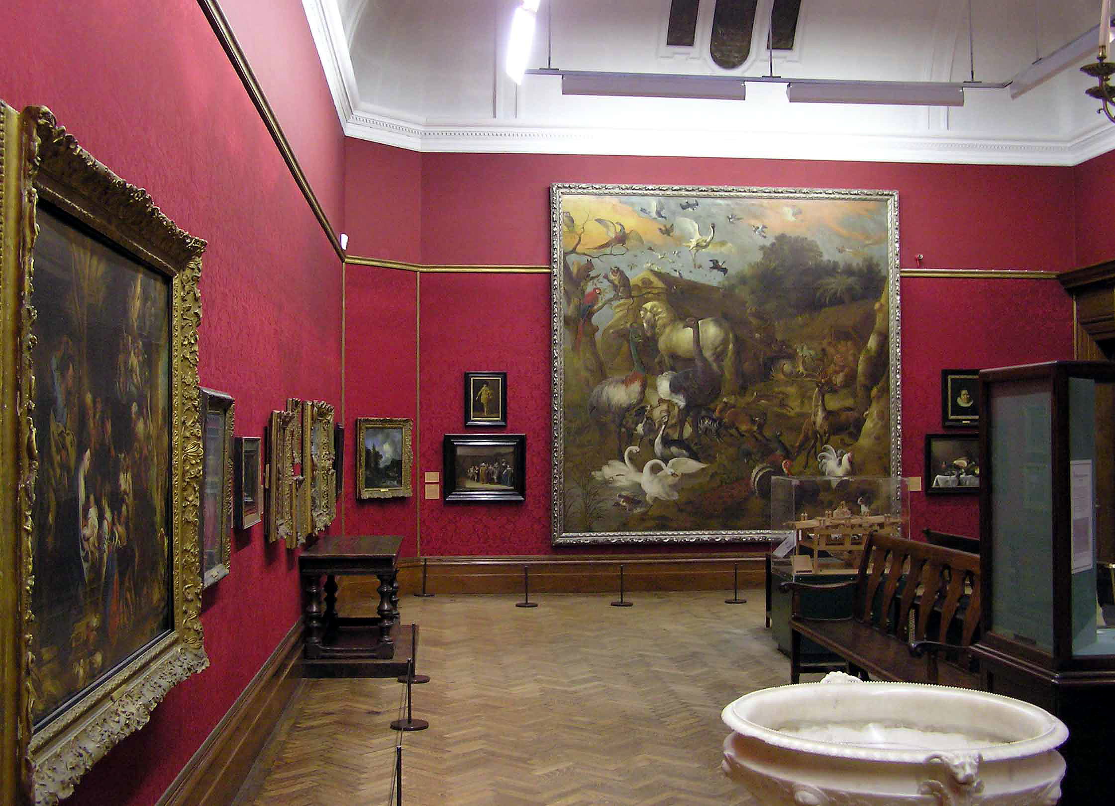 The interior of the Art Gallery of the "Bristol Museum and Art Gallery", Bristol, England. Featured on the far wall is the painting Noah’s Ark (4x4 meters), painted in 1700 by Jan Griffier.